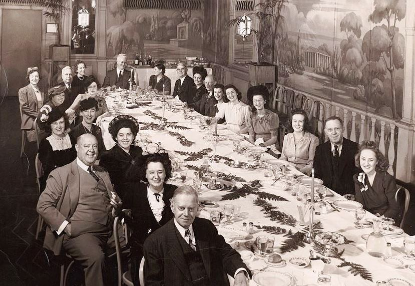 Picture of Brooklyn A.I.C.P. Christmas luncheon, Hotel St. George, December 24, 1942